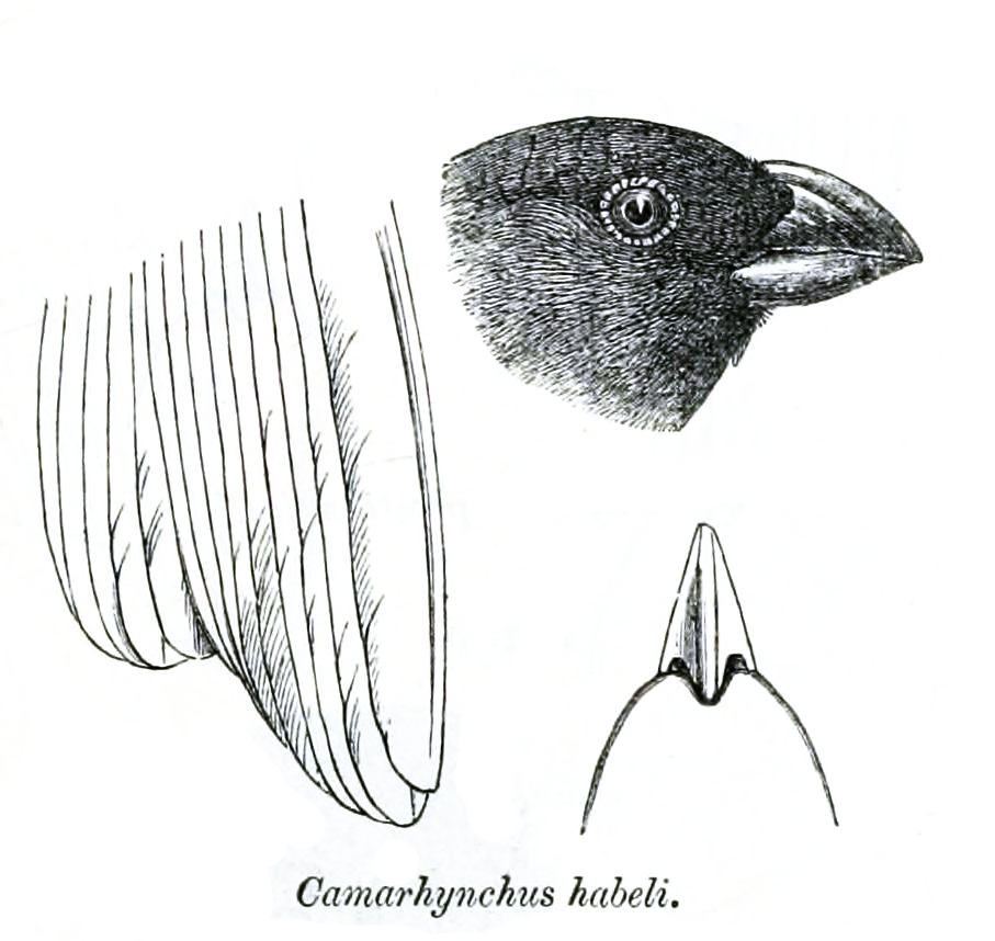 Large Tree-finch; head from lateral, bill from dorsal, remiges tips from ventral